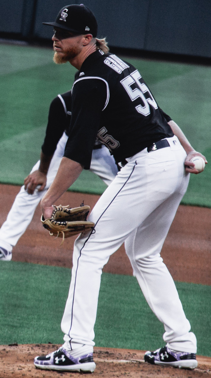 Jon Gray